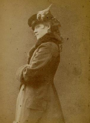 Ellen Andrée